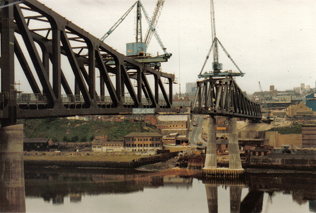 Building the Metro Bridge across the Tyne, 1978